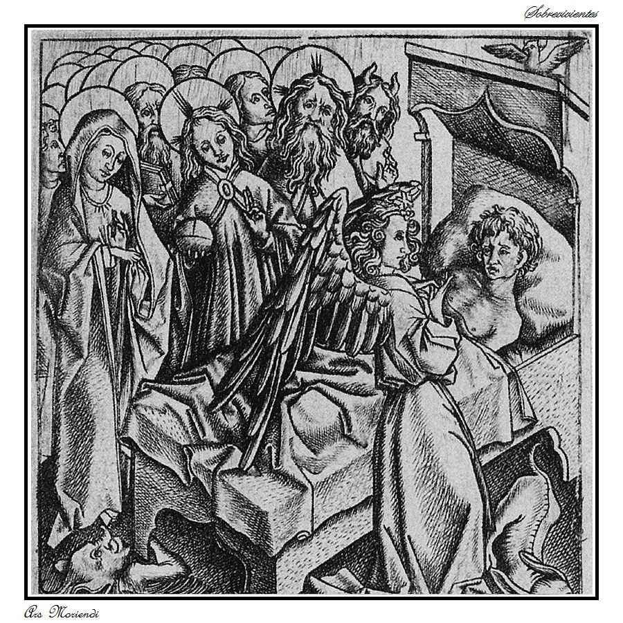 Image of the second album of the band.